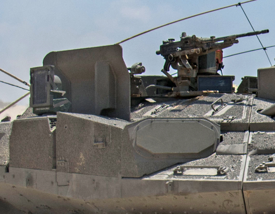 Merkava Mk 4m main battle tank with Trophy Active Protection System (Windbreaker) during Operation Protective Edge